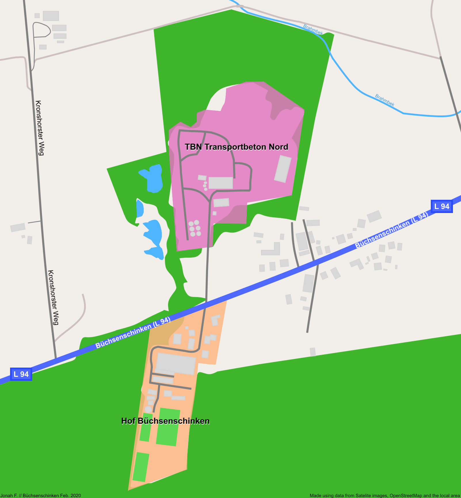 Map of the district Büchsenschinken in the German City of Reinbek.